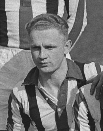 Frans van Loons in 1951